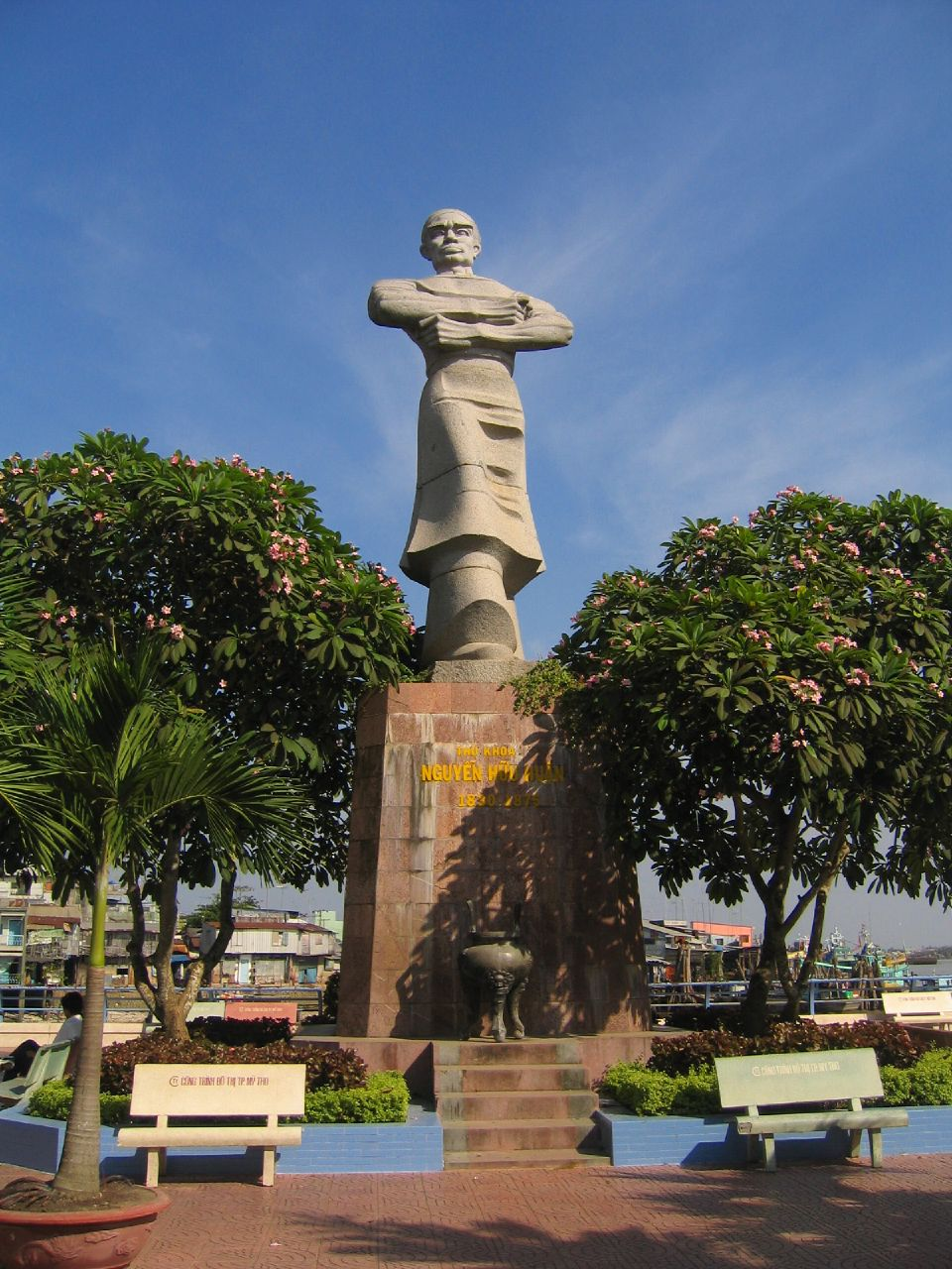 Statue of Thu Khoa Huan in My Tho city, Tien Giang province, Vietnam.